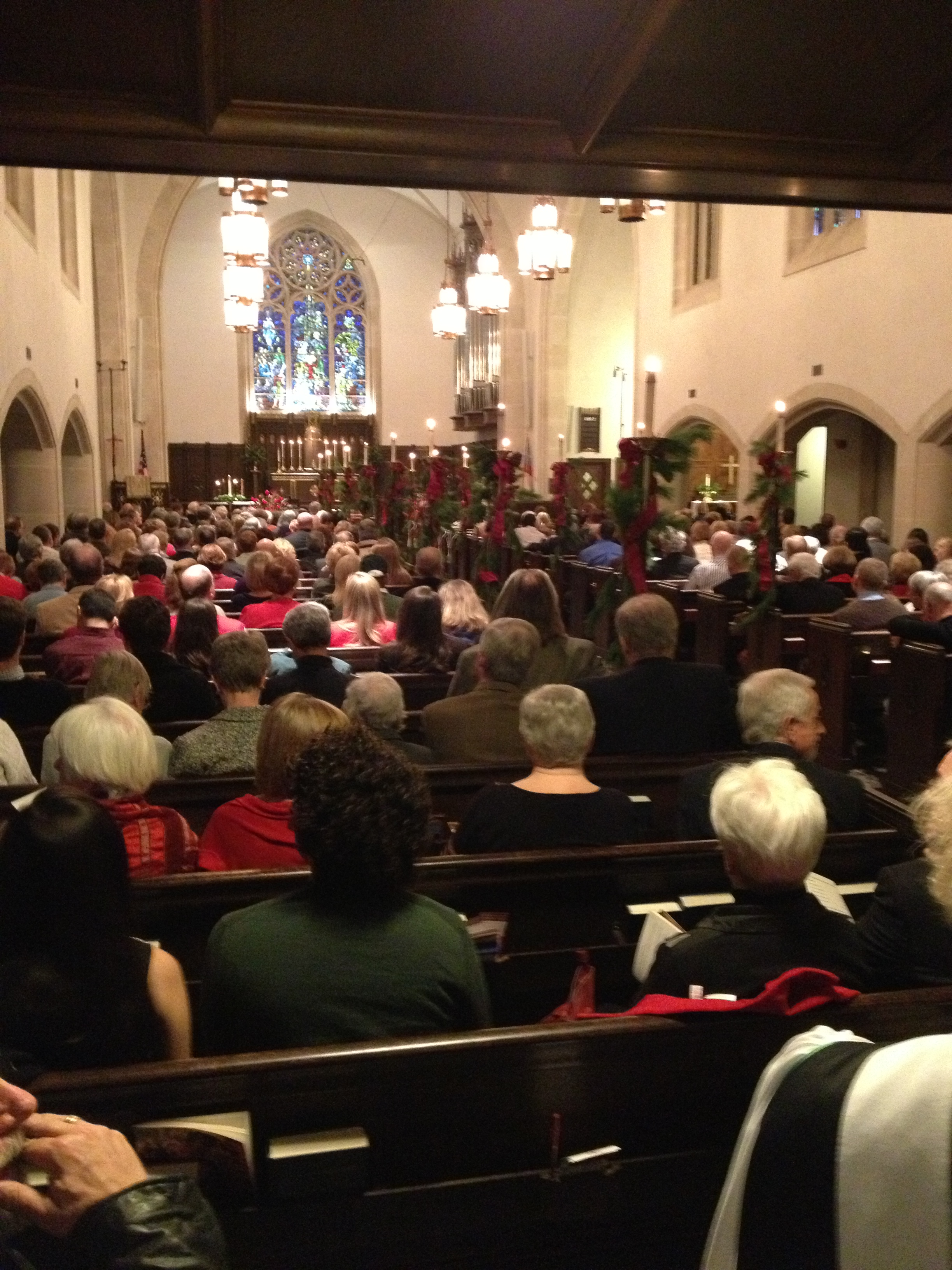 A view from the rear of the sanctuary in preparation for Lessons & Carols 2012